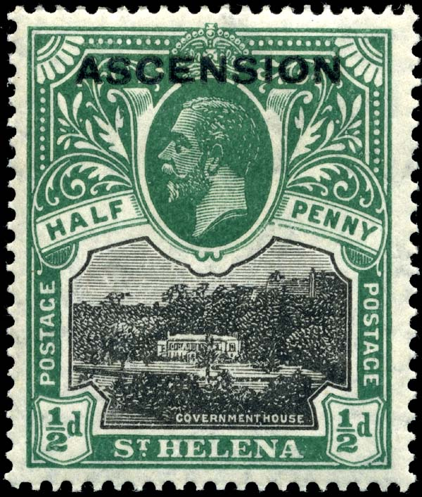 Ascension Island half-penny overprint stamp of 1922